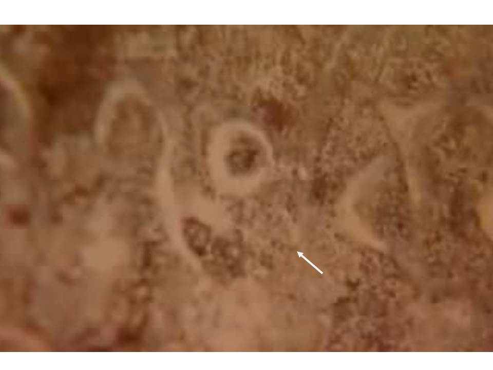 Carved Zero in Gwlaiar Shiva Temple in 876